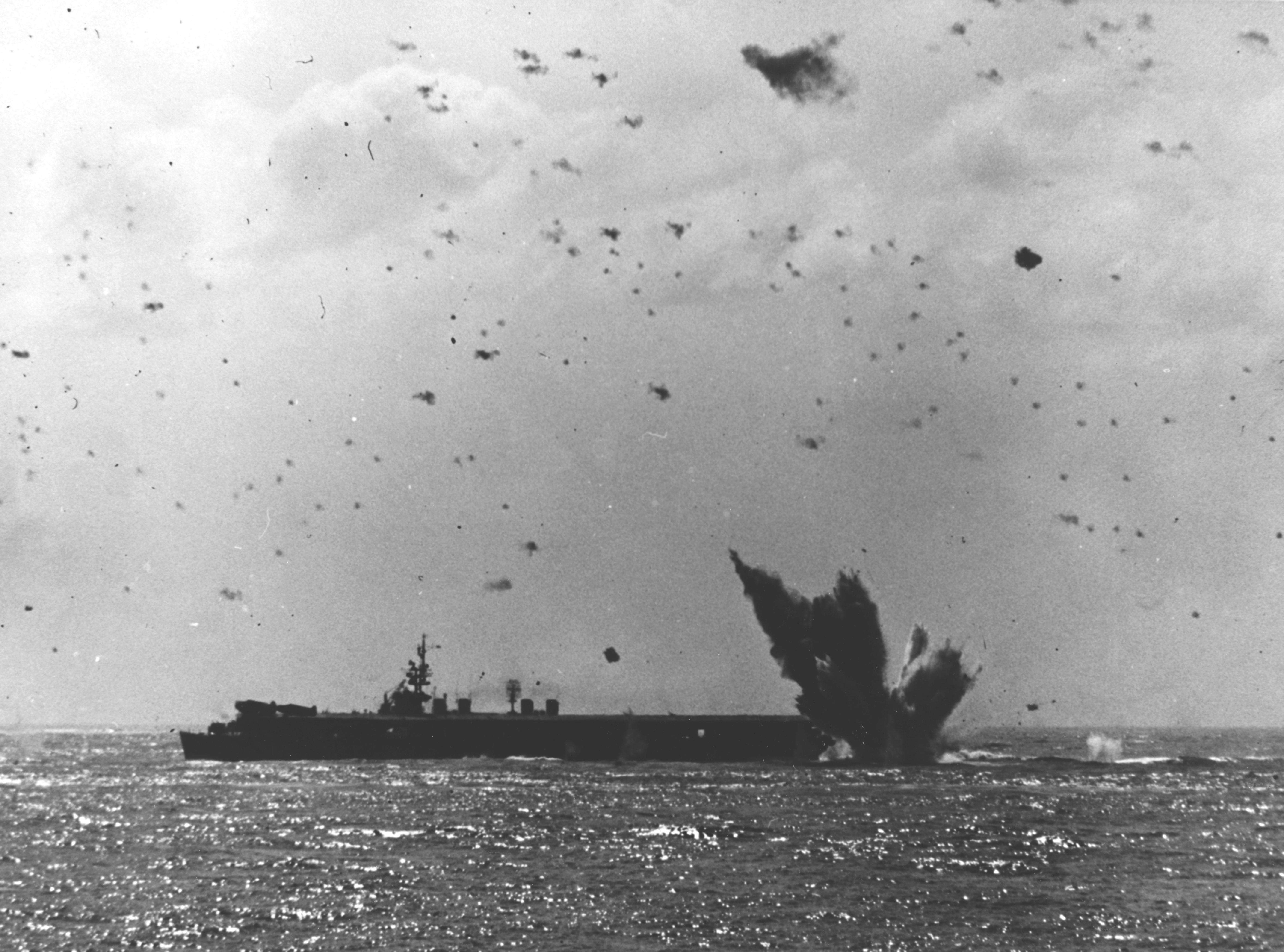 A Japanese plane crashes near the stern of a U.S. Navy light aircraft carrier, during an unsuccessful kamikaze attack, 17 April 1945. As the photo was taken from the battleship USS South Dakota (BB-57) the carrier is most probably USS Bataan (CVL-29), as South Dakota and Bataan were assigned to Task Group 58.3 (and Bataan was the only CVL assigned to TG 58.3).